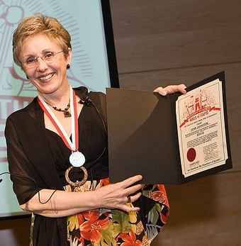 Brad Mackay, Director of the Doug Wright Awards, inducts Lynn Johnston into The Giants of the North: the Canadian Cartoonists Hall of Fame